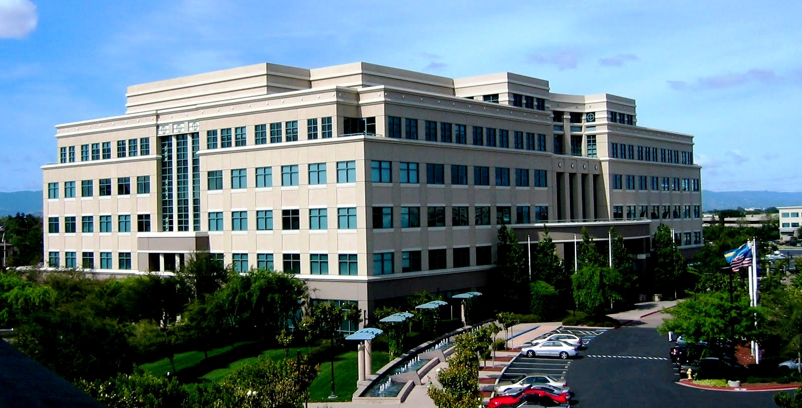 Building 10 of the Cisco San Jose Main Campus, headquarters of Cisco's executive offices